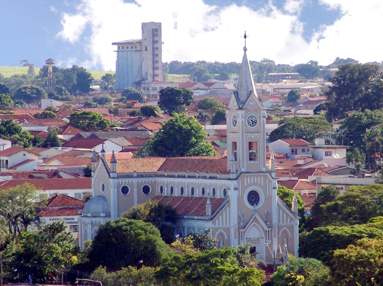 Shrine Mrs. of the Pains of Avaré (Santuário Nossa Senhora das Dores de Avaré)